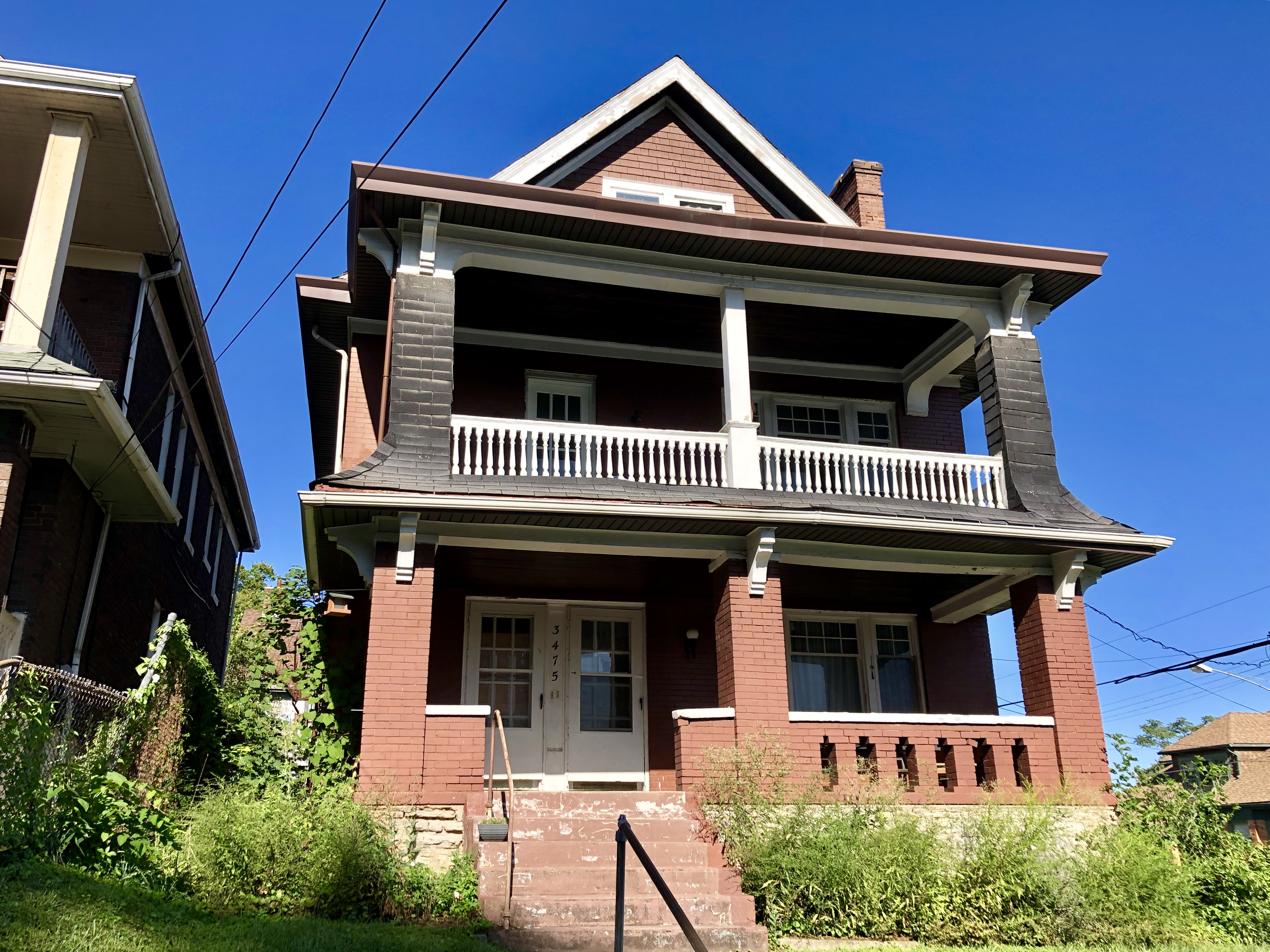 Doris Day Childhood Home, Greenlawn Avenue, Evanston, Cincinnati, OH.